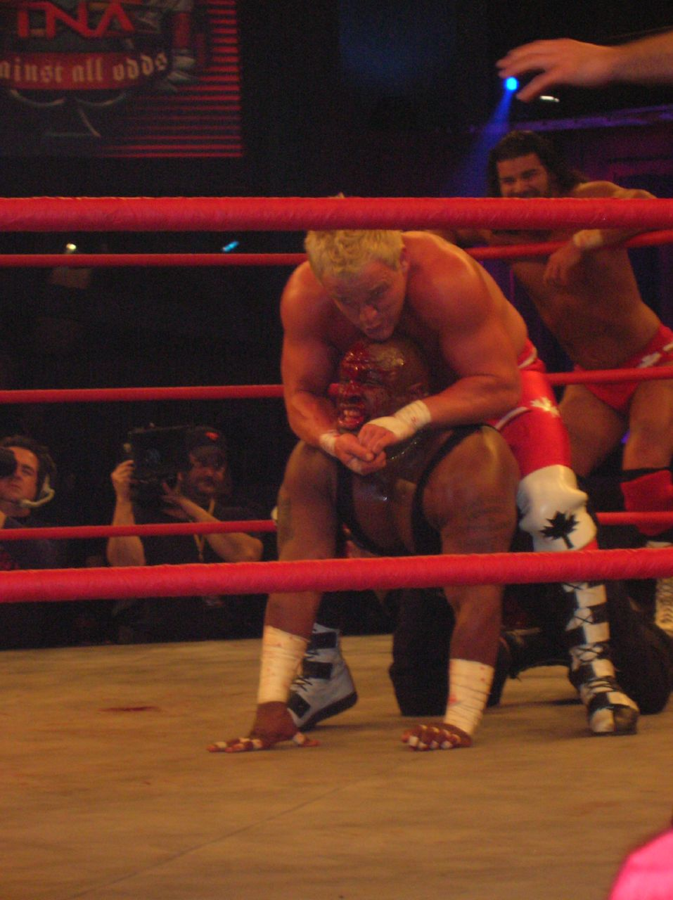 Young performing a camel clutch on Brother Devon.